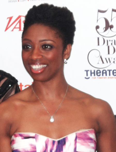 Tied for Outstanding Actress in a Musical, Catherine Zeta-Jones & Montego Glover.